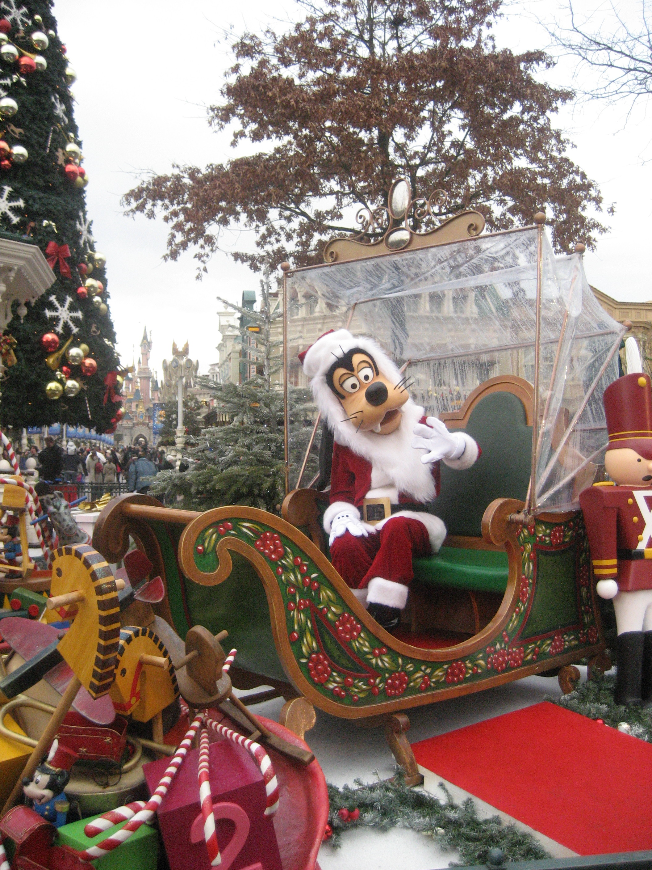 Disneyland Resort Paris 15 years